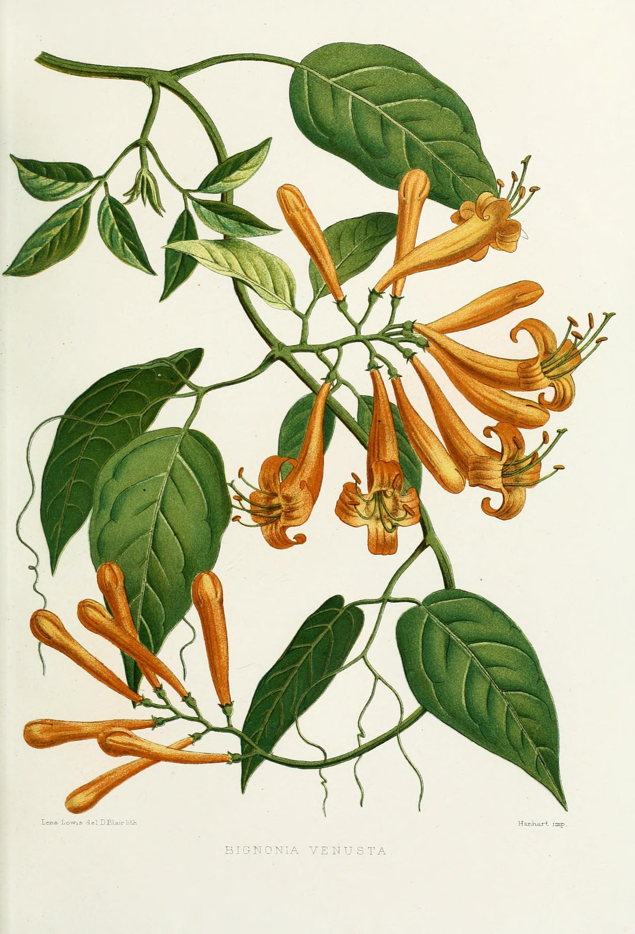 Colour drawing of bignonia venusta from Familiar Indian Flowers (1878) by Lena Lowis.